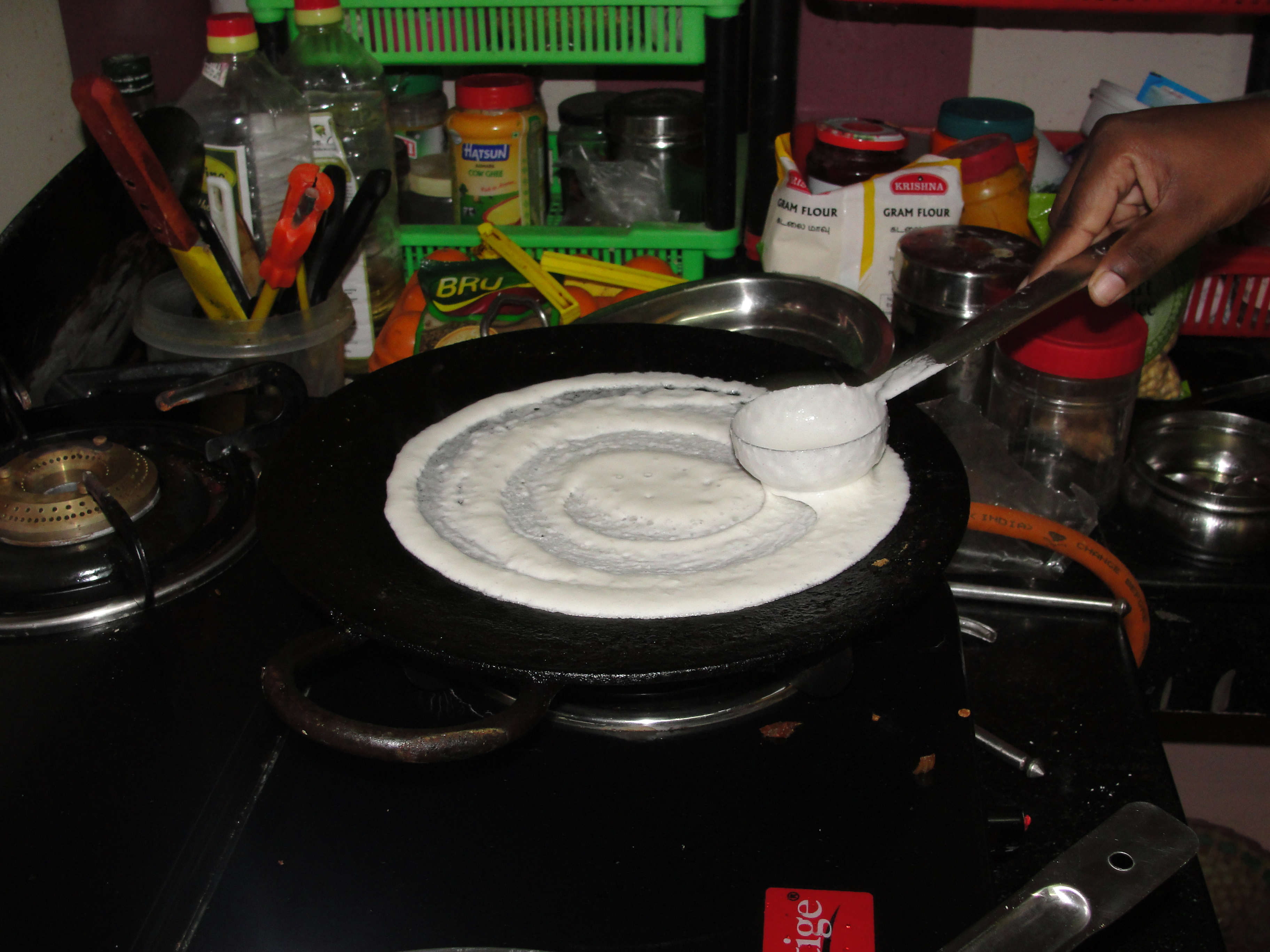 This picture depicts the Dhosai making. Dhosai is one the food in Tamil Nadu.